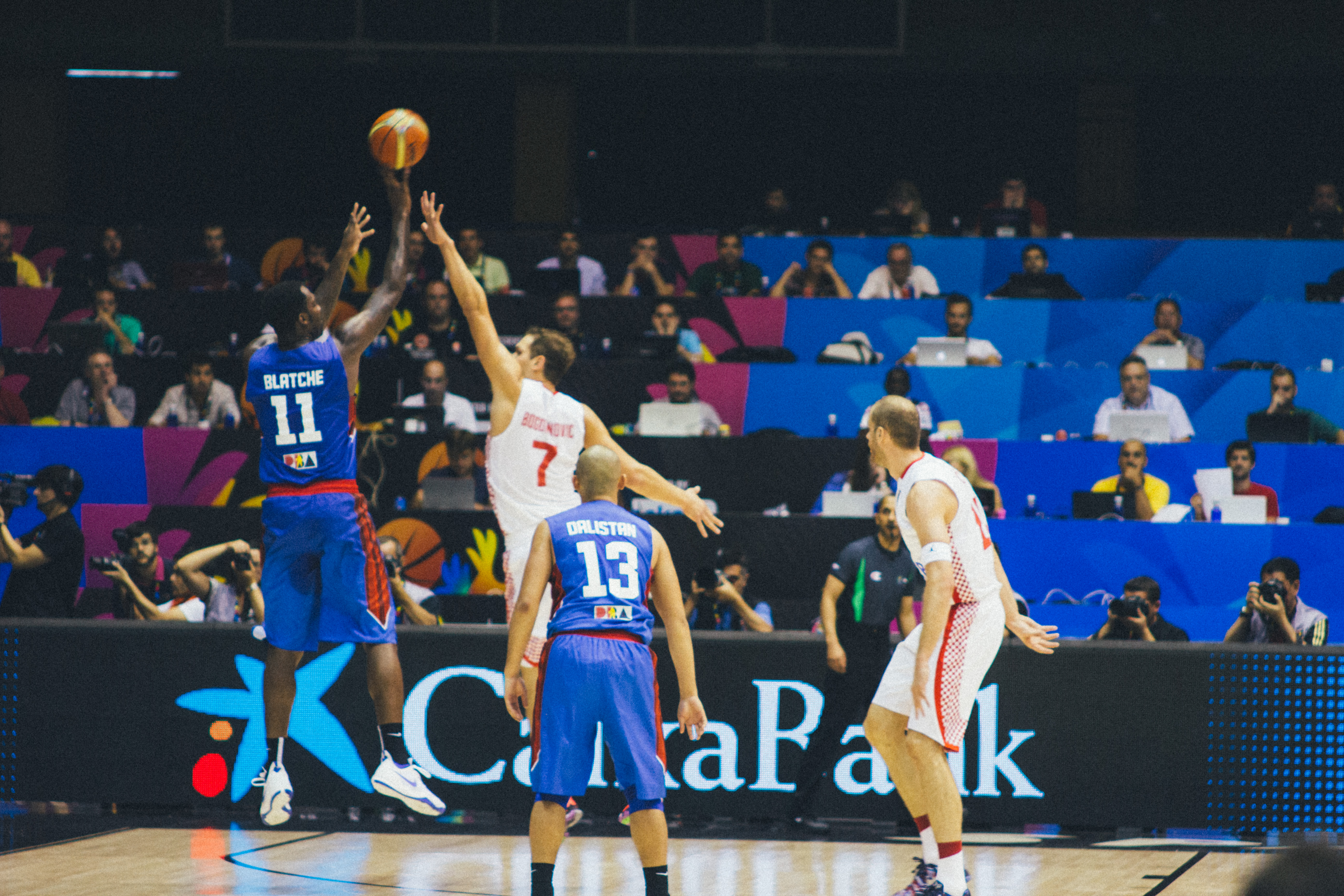 Croatia and Philippines match at the FIBA Basketball World Cup 2014-08-30 Andray Blatche vs Bojan Bogdanović